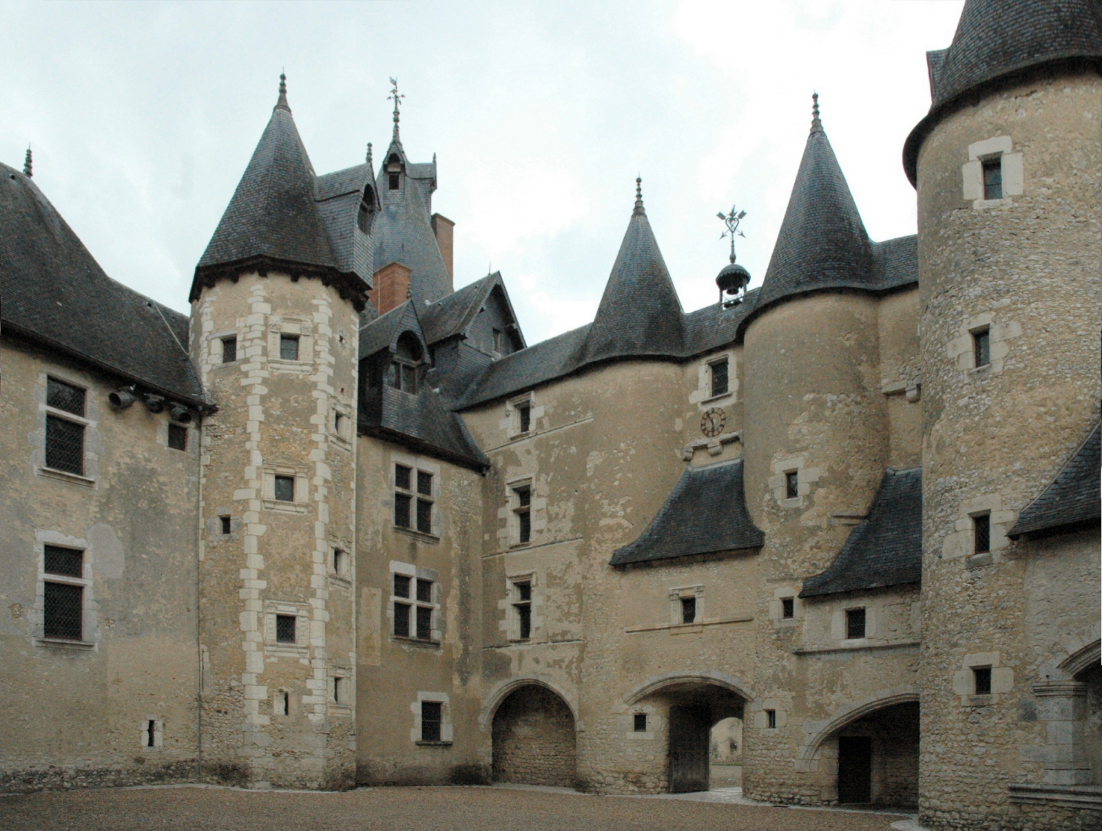 Château de Fougères-sur-Bièvre, western corner, seen from the inner yard